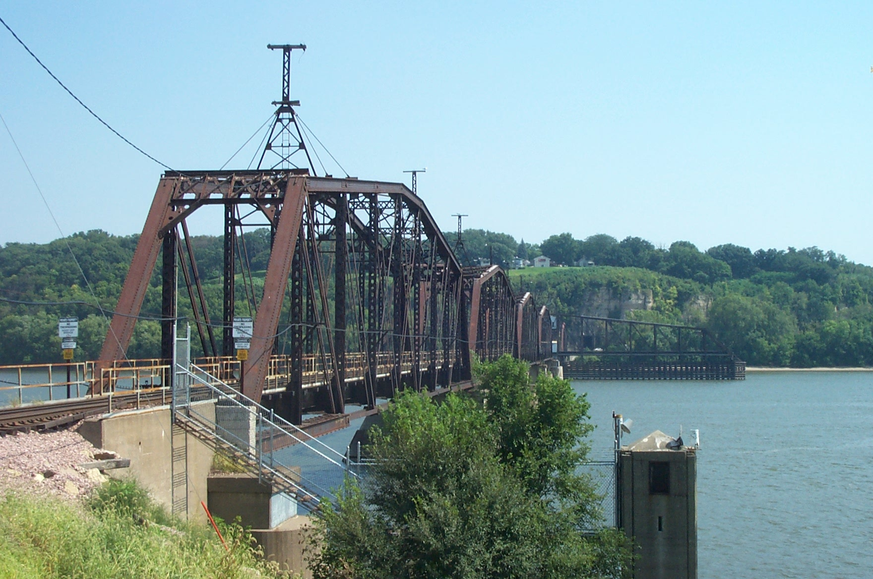 Railroad bridge across the Mississippi River between Dubuque, Iowa and East Dubuque, Illinois. View from the Iowa side of the river looking across to Illinois.